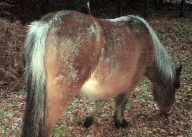 Rabicano pattern, skunk tail, top frosting, mane frosting, roan